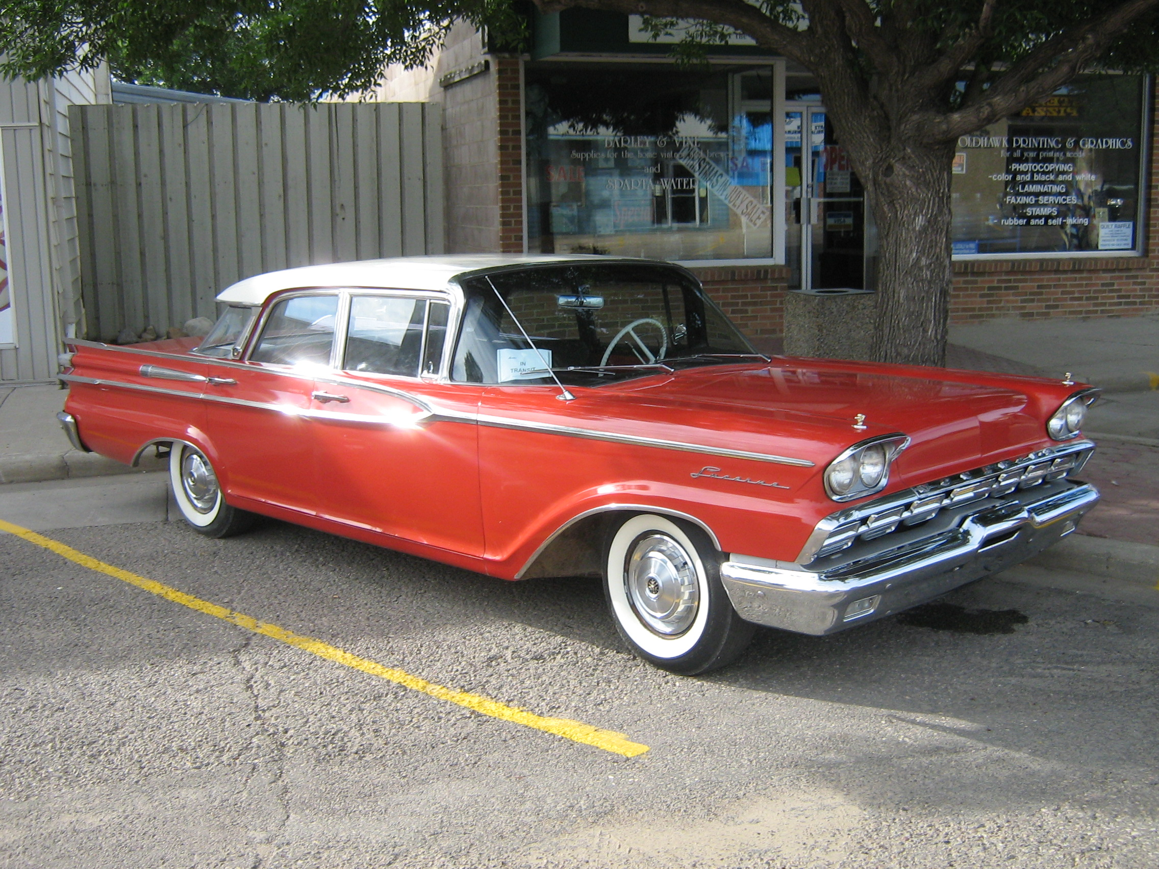 A Canadian Mercury Monarch II Lucerne